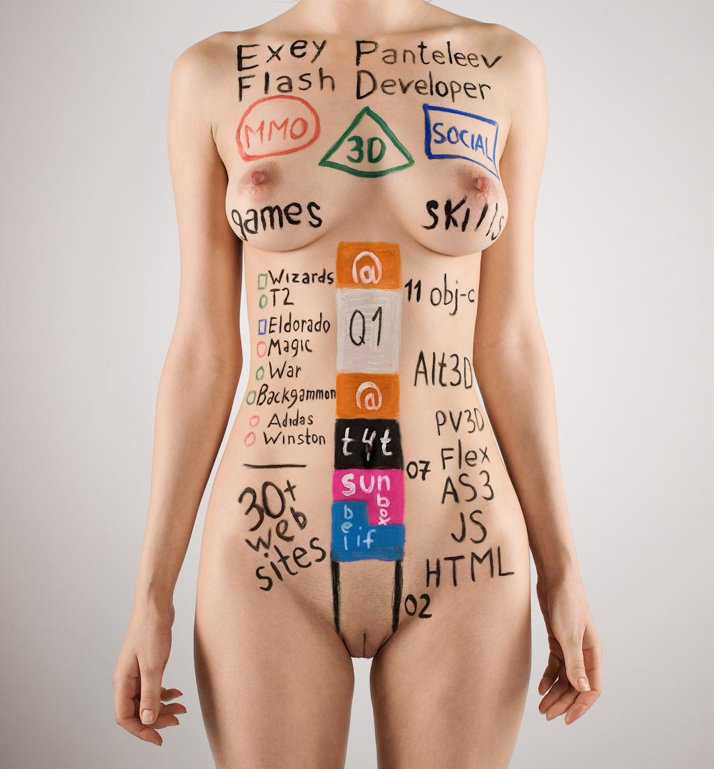 Text version